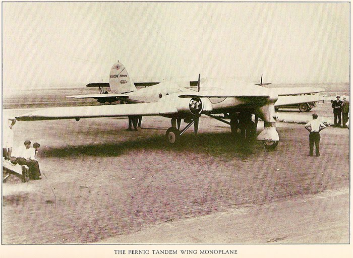 Fernic-FT-9 tandem monoplane built by Gheorghe Fernic